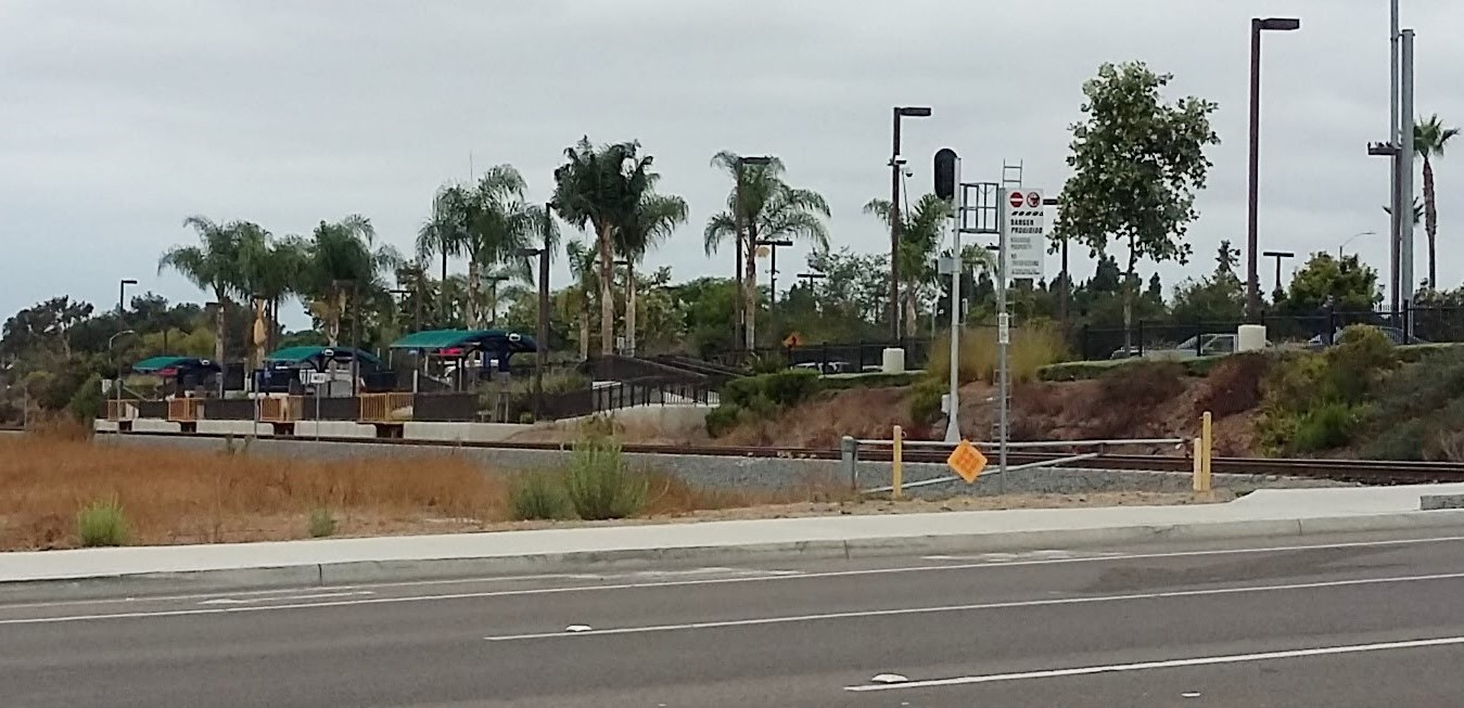 Melrose Drive station platforms from the east for Sprinter light rail